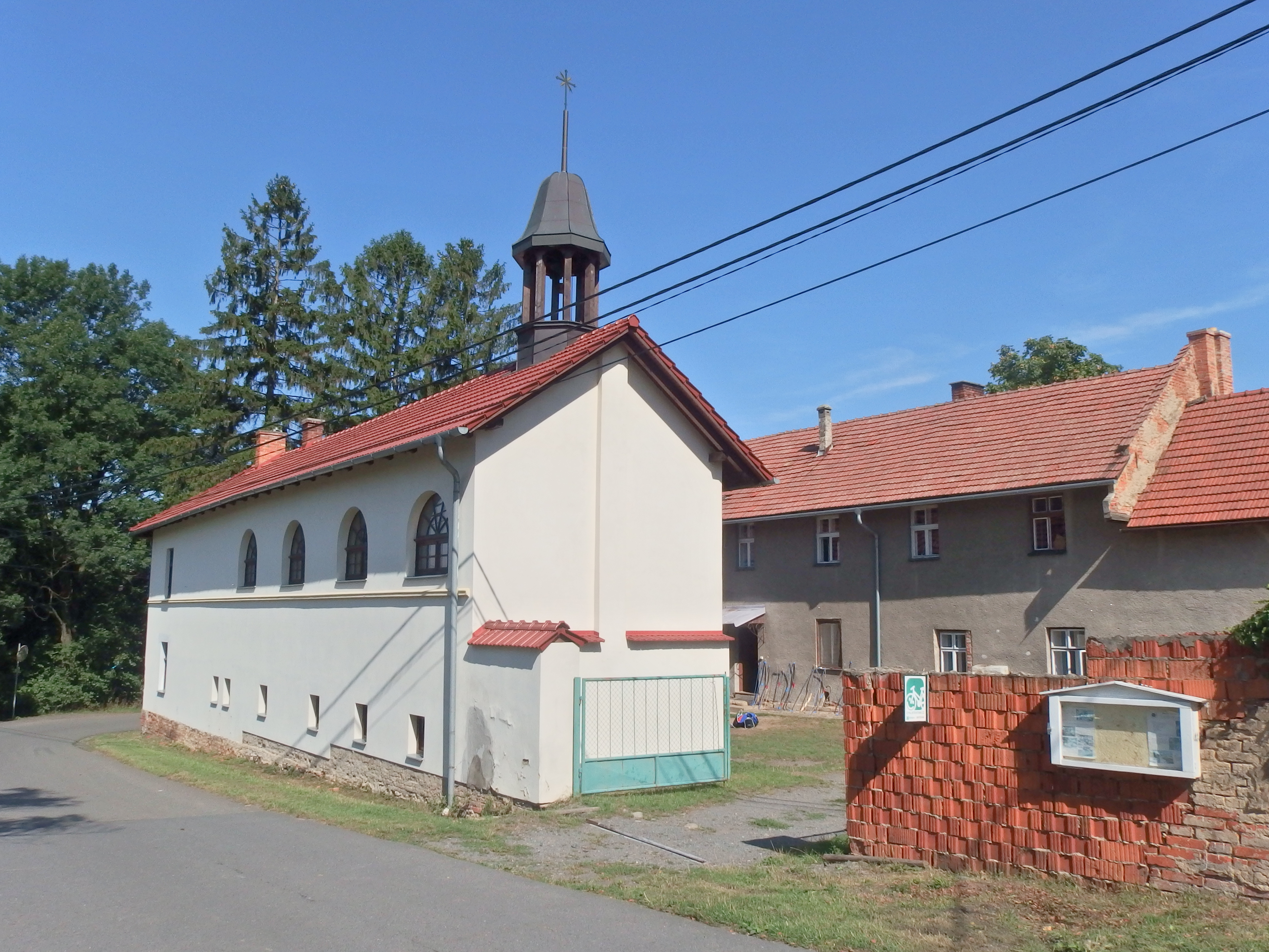 Jeseník nad Odrou, Nový Jičín District, Czech Republic, part Blahutovice.